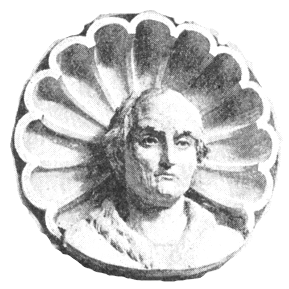 Bust of Petr z Prachatic (a. k. a. Peter von Prachatitz; d. 1429), a Czech-Austrian architect. The bust is a part of a decoration of a house in "Na Poříčí" street in Prague.